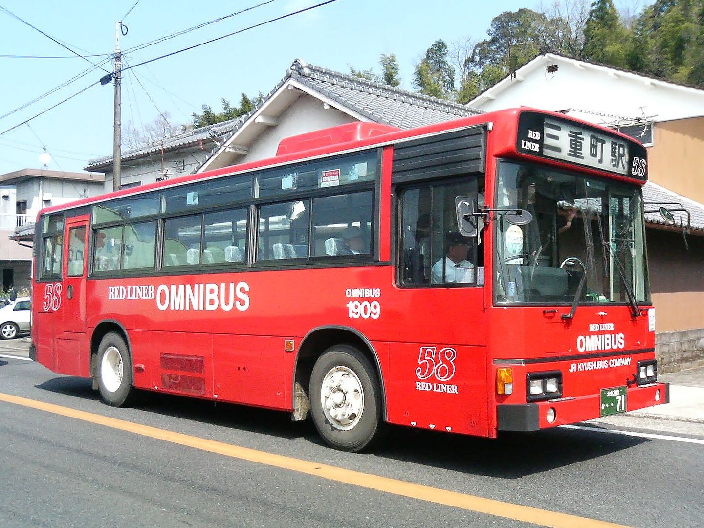 JR Kyushu bus. See below.